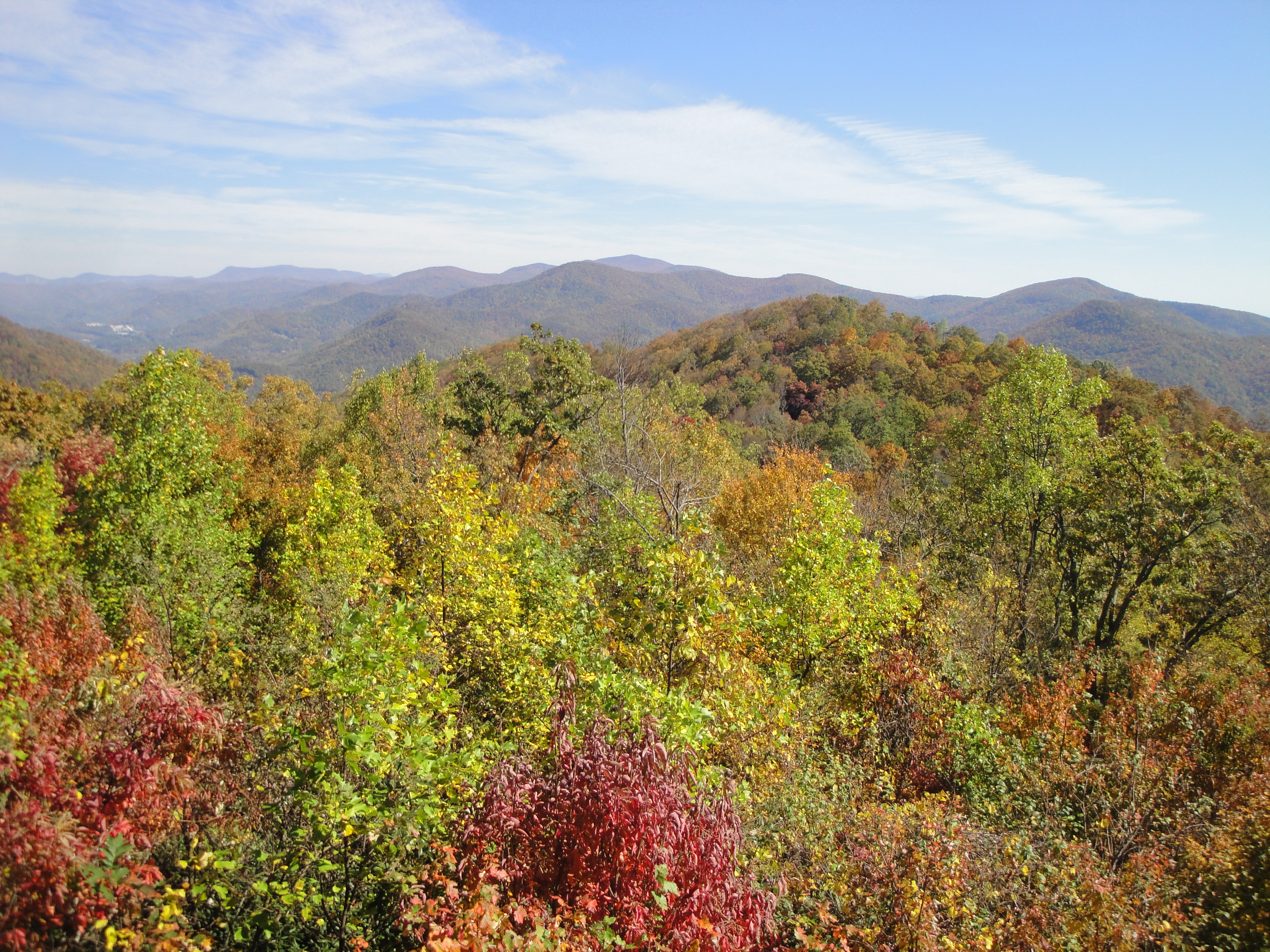 View from Black Rock Mountain State Park